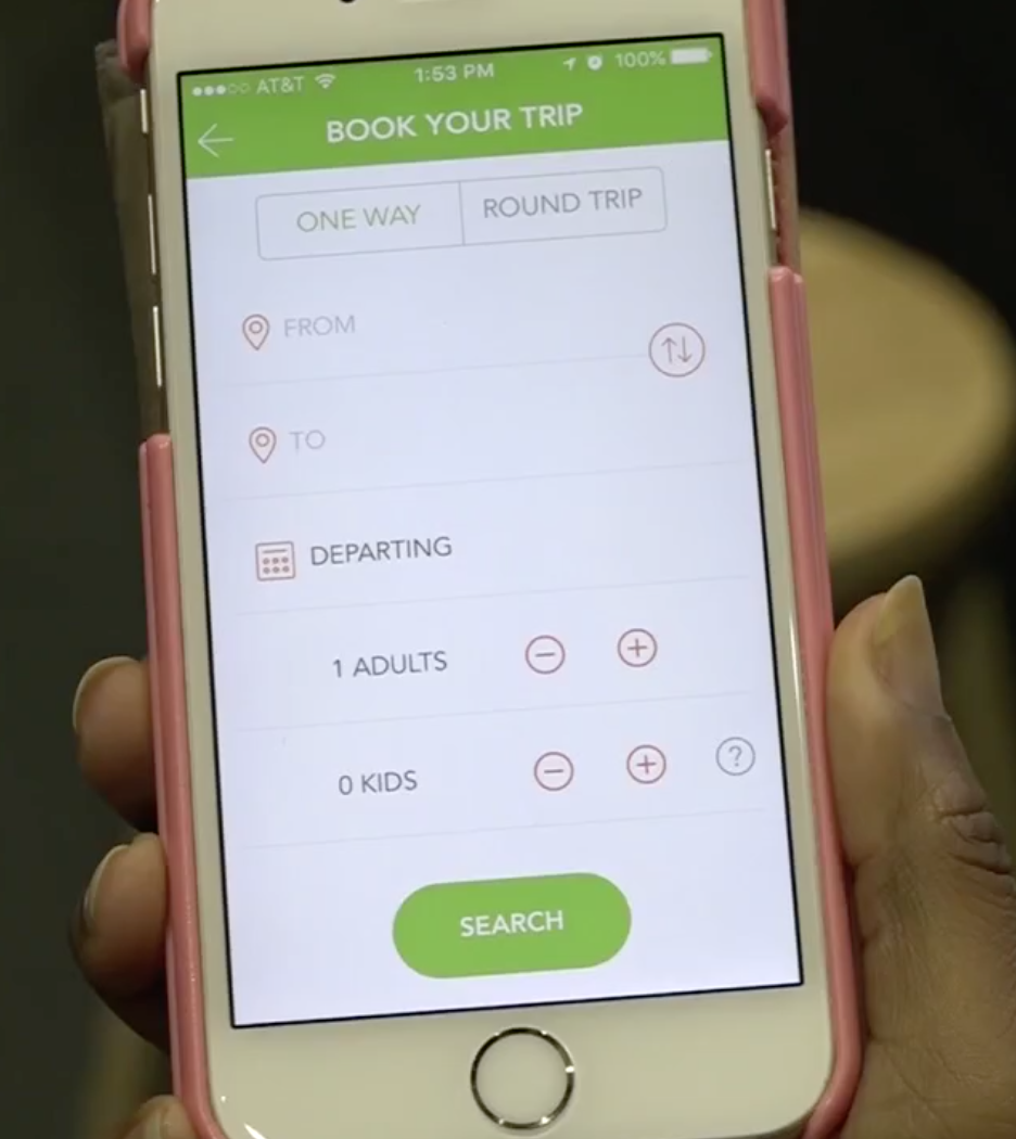 Shofur mobile app being used by customer to charter a bus